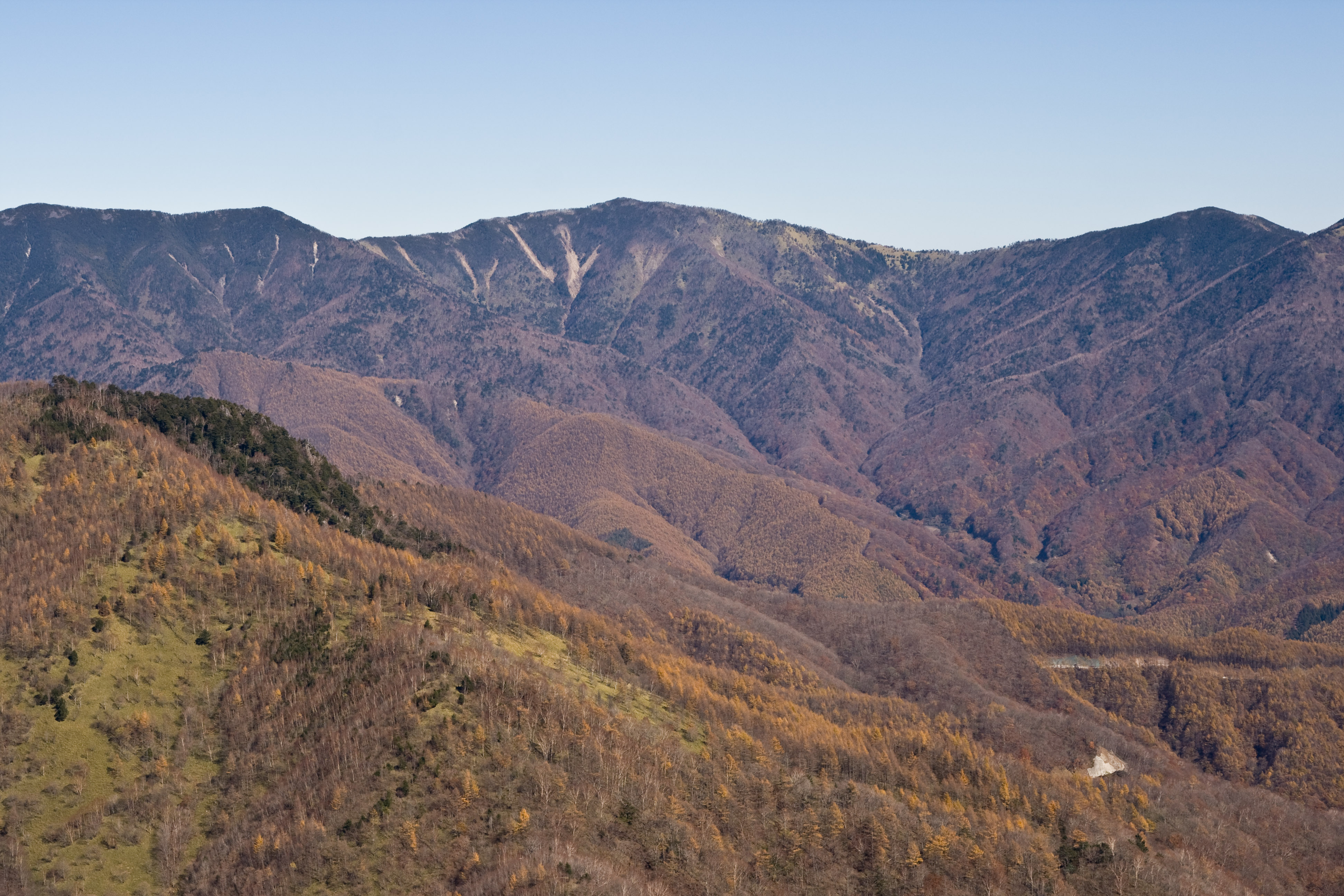 Mt.Karisakarei(雁坂嶺 かりさかれい Karisaka-rei) seen from Mt.Kentoku, Okuchichibu Mountains, Yamanashi Pref., Japan.